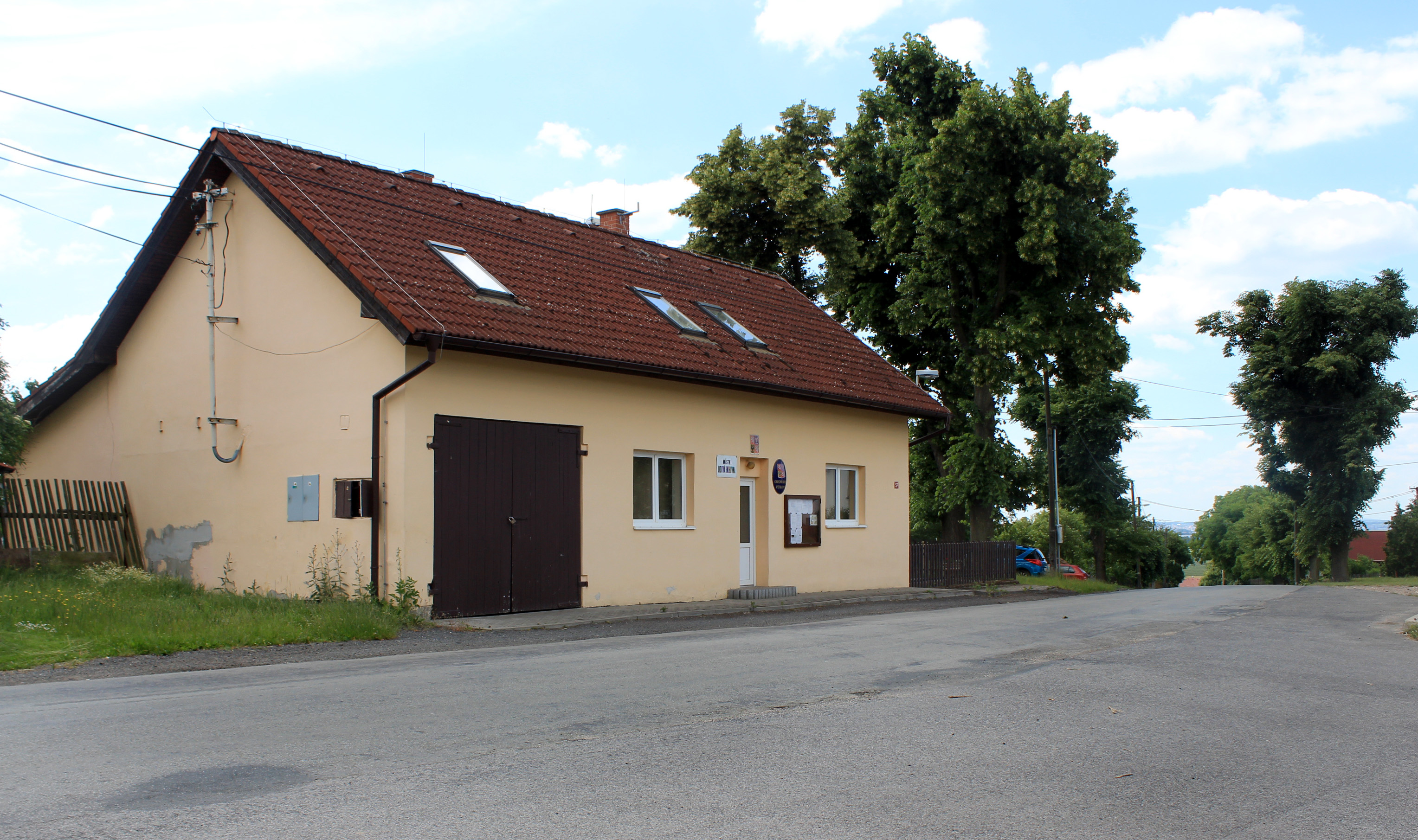 Municipal office in Petkovy, Czech Republic.